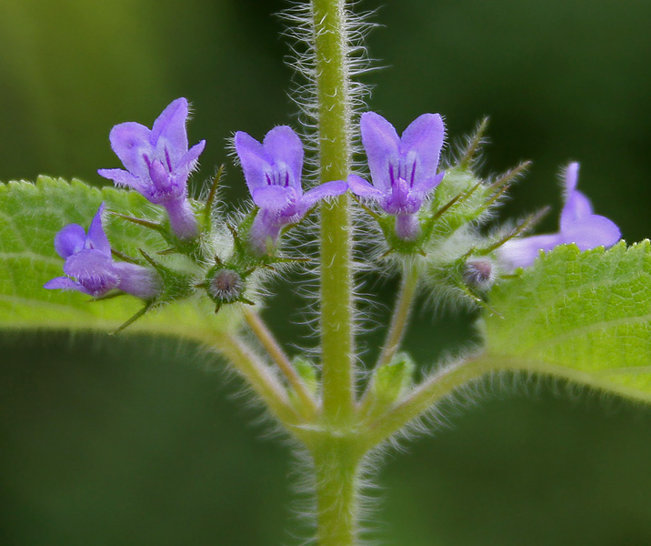 American Mint, Vilayti Tulsi, pignut, stinking Roger, wild spikenard or Darp Tulas Hyptis suaveolens in Hyderabad , India.